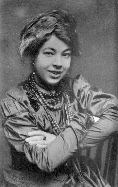 Photograph of Pamela Colman Smith